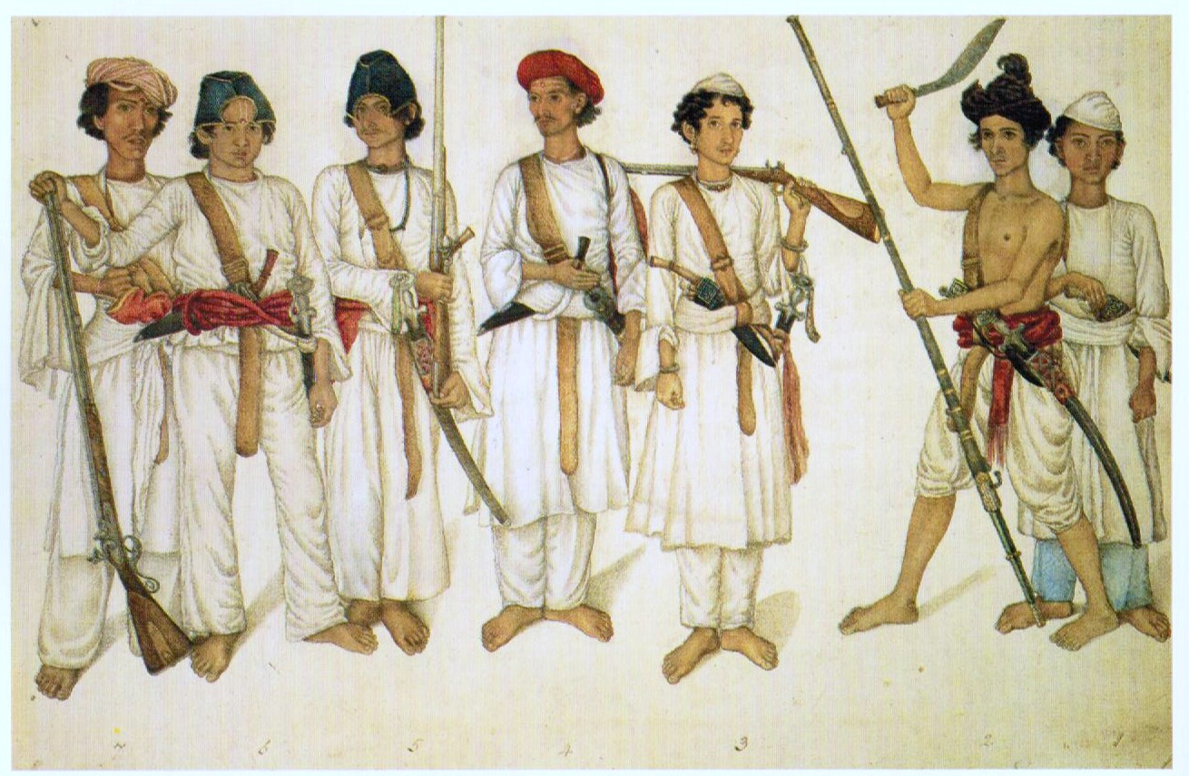 Nepali (Gorkhali) soldiers 1815-16 AD at Anglo-Nepalese war